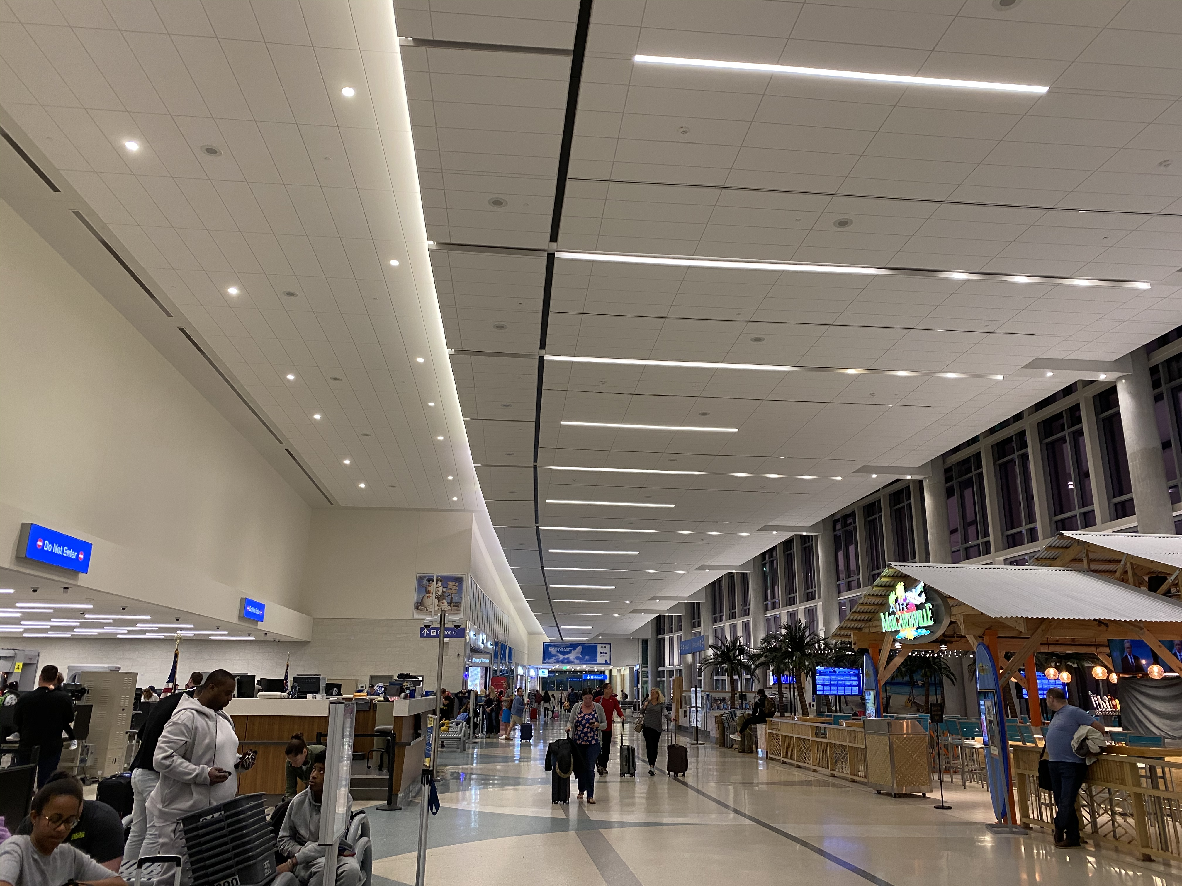 Interior of Terminal 1 at Fort Lauderdale–Hollywood International Airport.